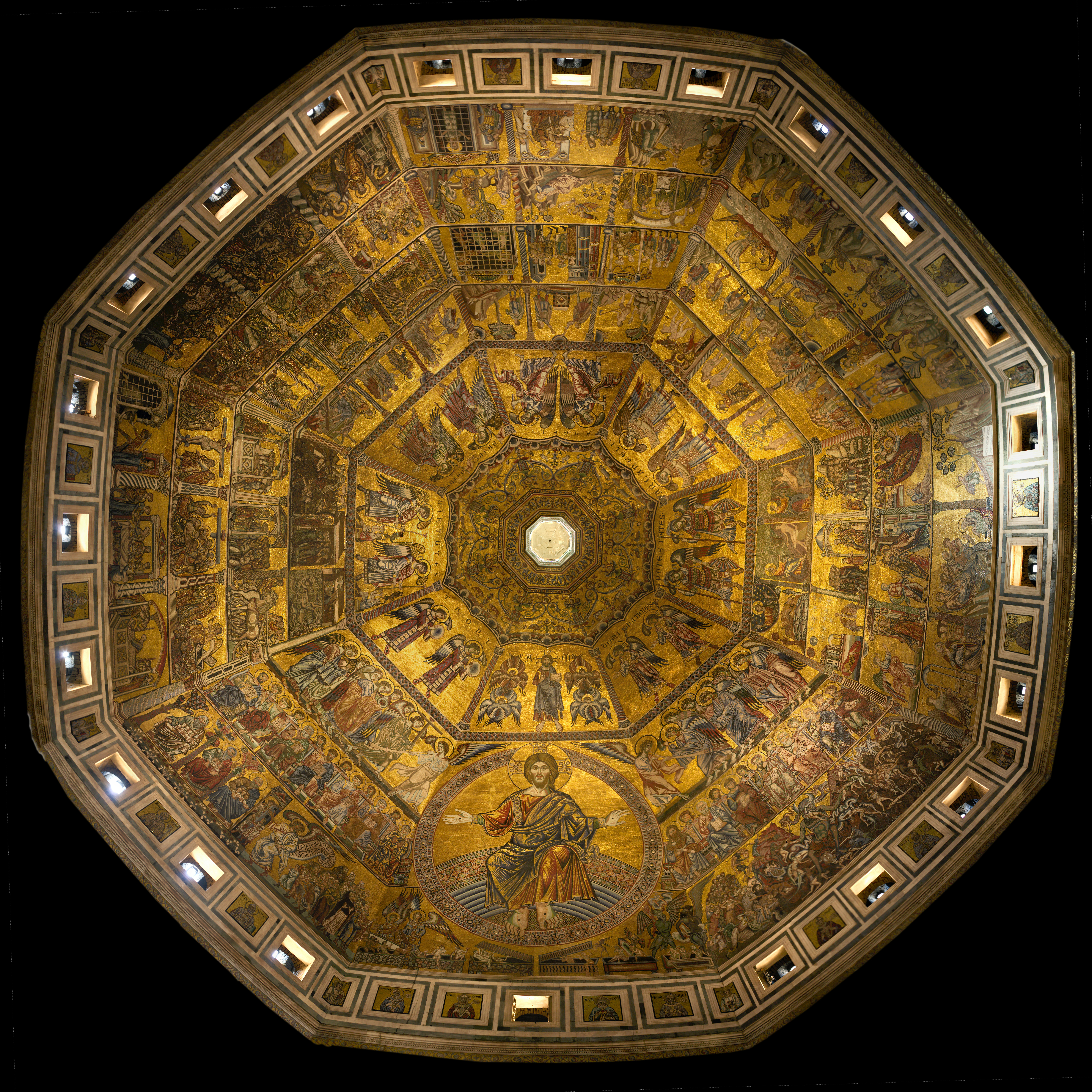 The mosaic ceiling of the Baptistery San Giovanni in Florece in total view (Stitched from 20 images, exif from one image)